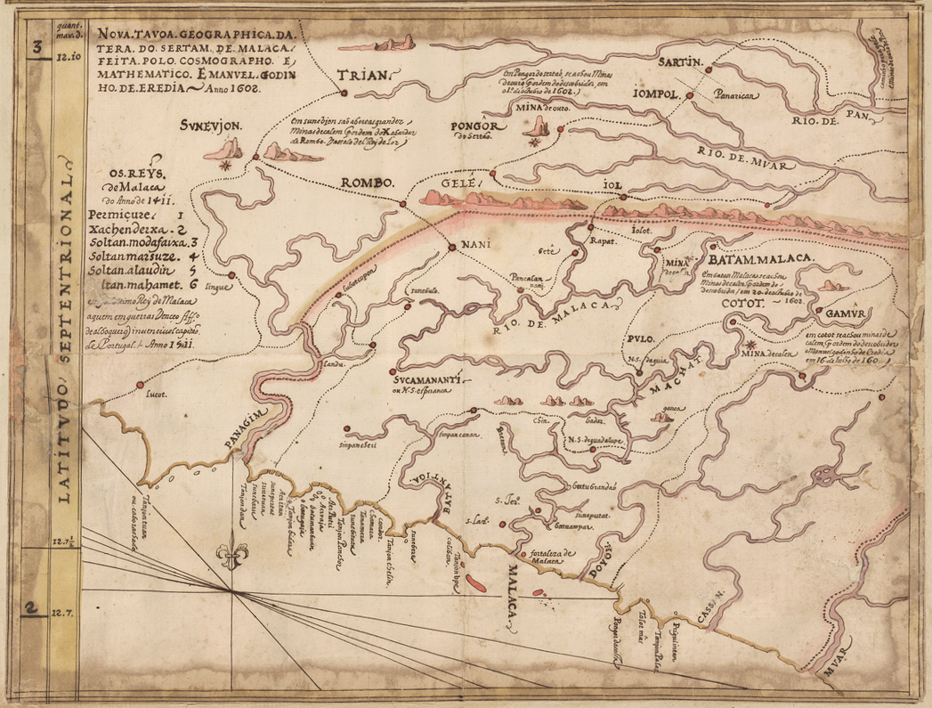 This map showing the Strait of Malacca and the interior of the Malay Peninsula is the work of Malaysian-Portuguese cartographer Emanuel Godinho de Eredia (1563-1623). At the turn of the 17th century, the Portuguese were exploring southeast Asia from their base in Malacca, searching for the “Islands of Gold” that figured prominently in Malaysian legends. Around 1602, the viceroy of Portuguese India commissioned an expedition around the islands south of Malaysia and India. Eredia served as a soldier and engineer on the mission and completed this map around the same time. His work, however, is suspected to be based more on the writings of Ptolemy and Marco Polo than on his own experience.